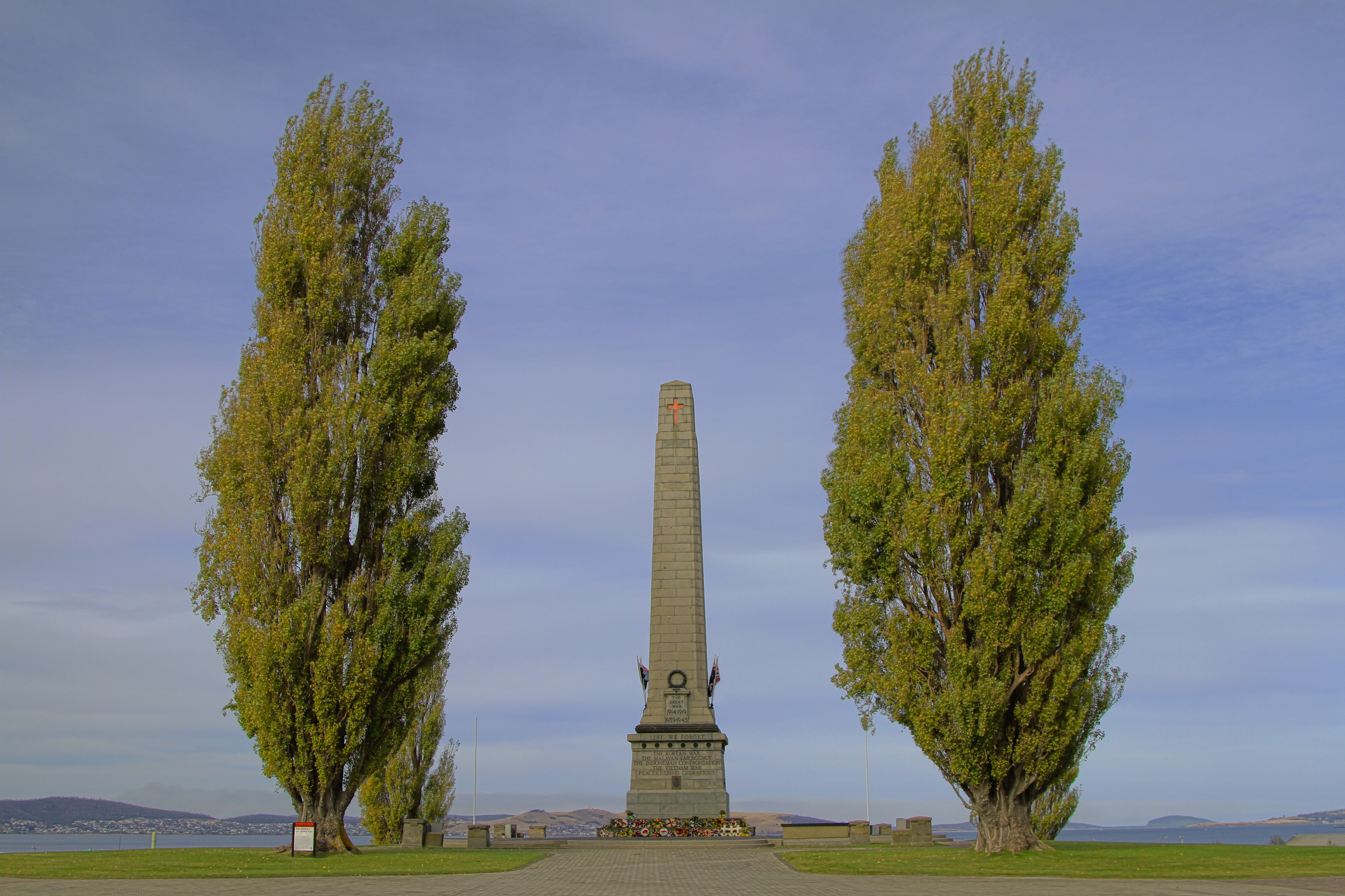 The cenotaph in Hobart, Tasmania, with wreaths laid as part of ANZAC Day commemorations on 25 April.